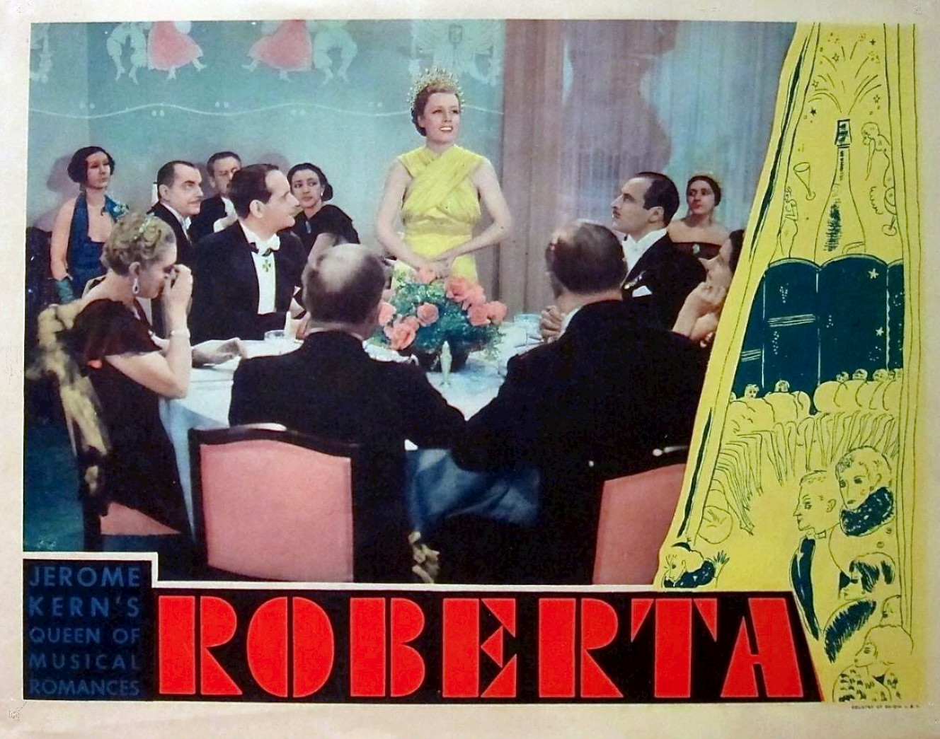 Lobby card from the American musical film Roberta (1935).